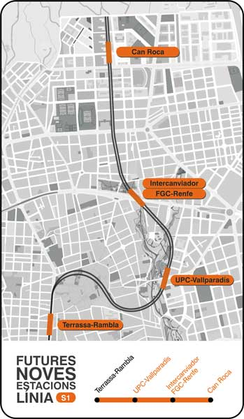 FGC S1